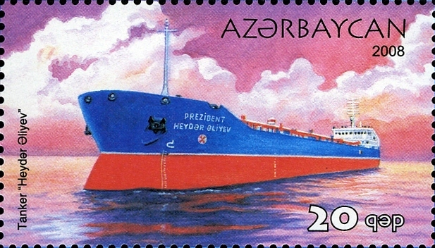 150th Anniversary of the Caspian Shipping Company - "H.Aliyev"